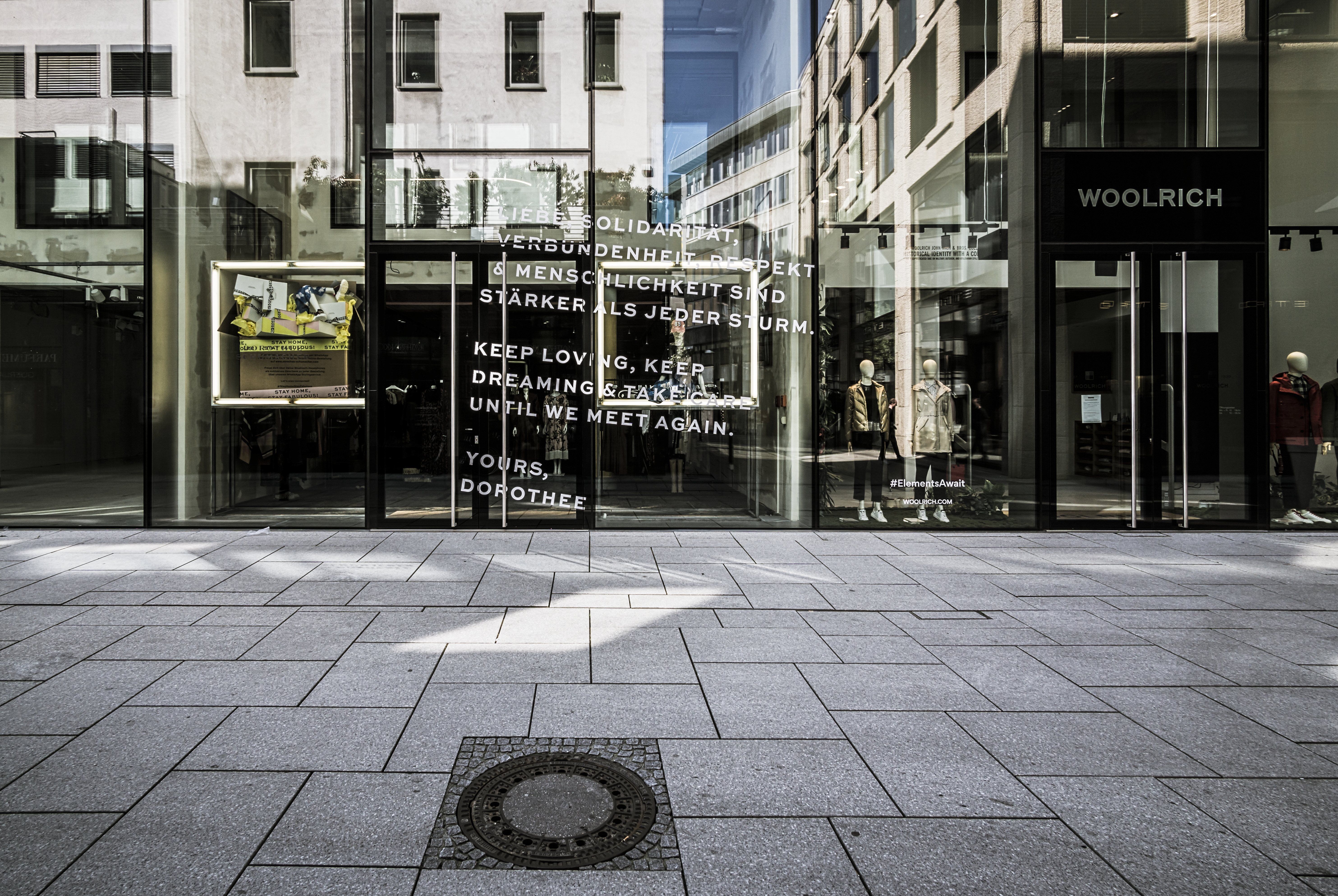 Frankfurt, Neue Rothofstr.